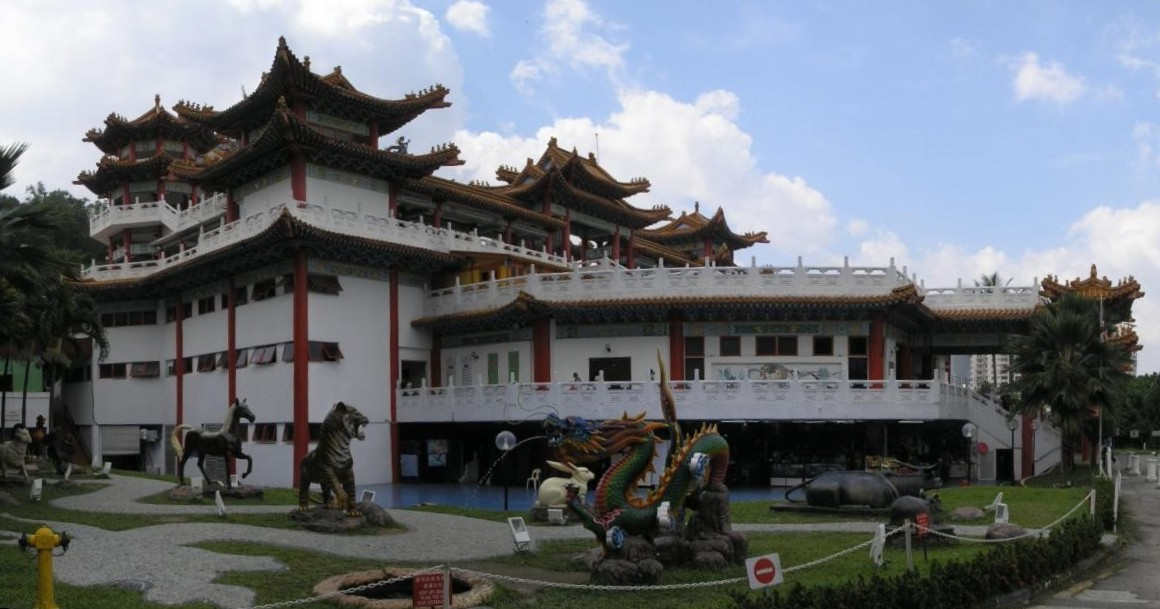 The Thean Hou temple in Kuala Lumpur.